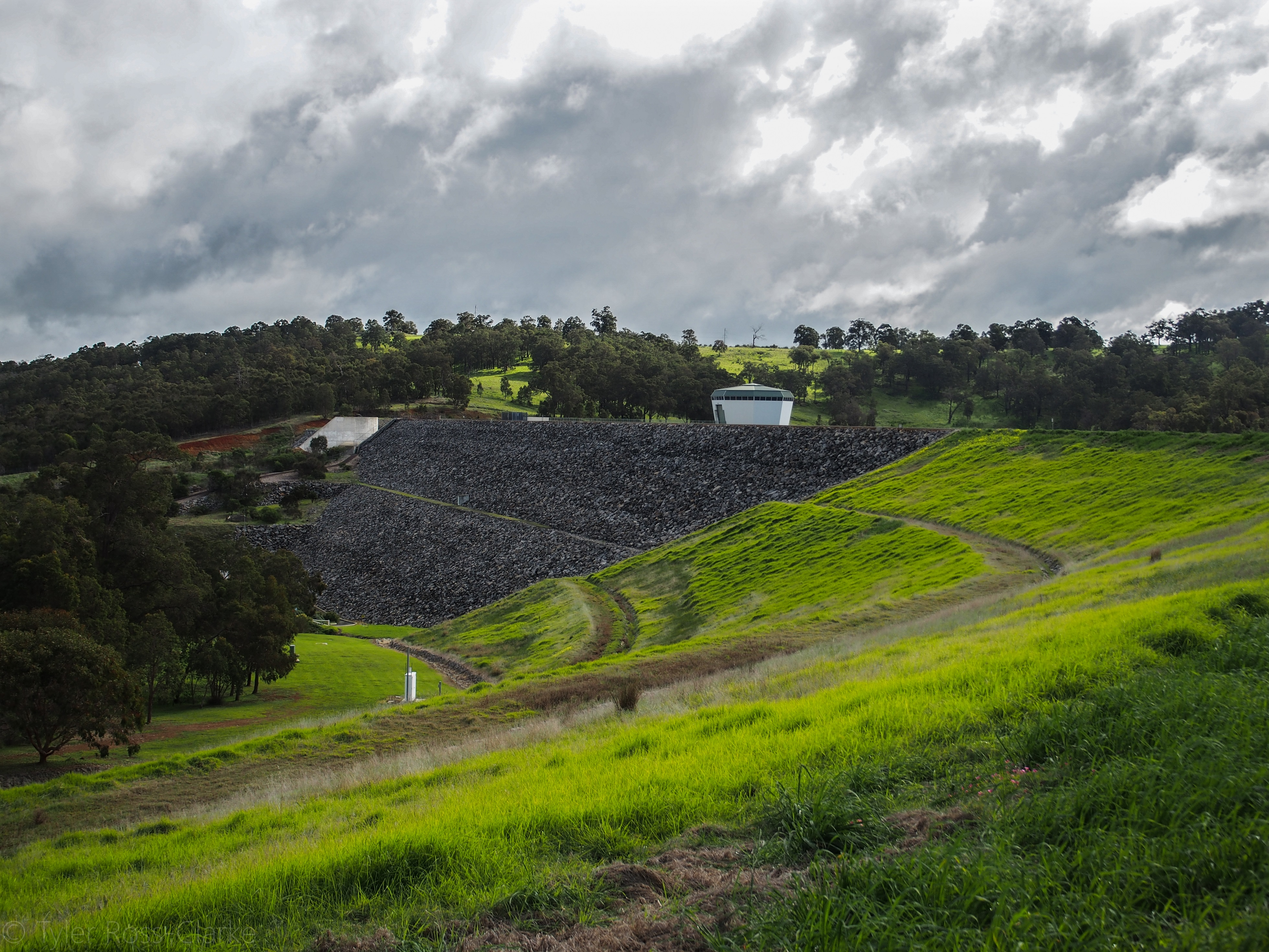 On Harvey Dam Wall. The tower visible on the middle-right.